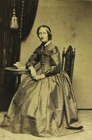 Pauline Frederikke Worm (1825-1883), Danish writer and women's rights activist